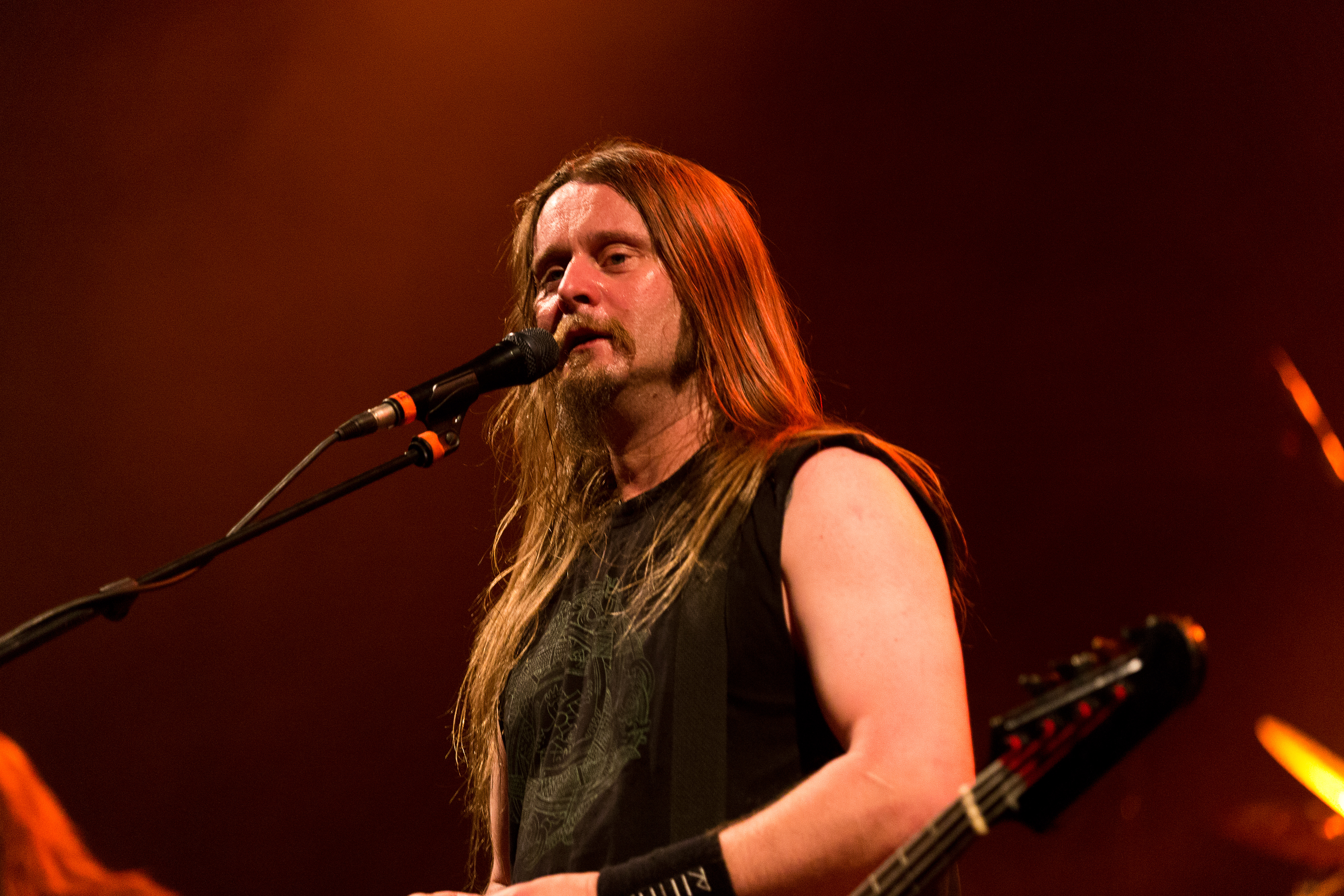 The Norwegian viking/progressive metal band Enslaved at the 25. Wave-Gotik-Treffen 2016 in Leipzig/Germany.